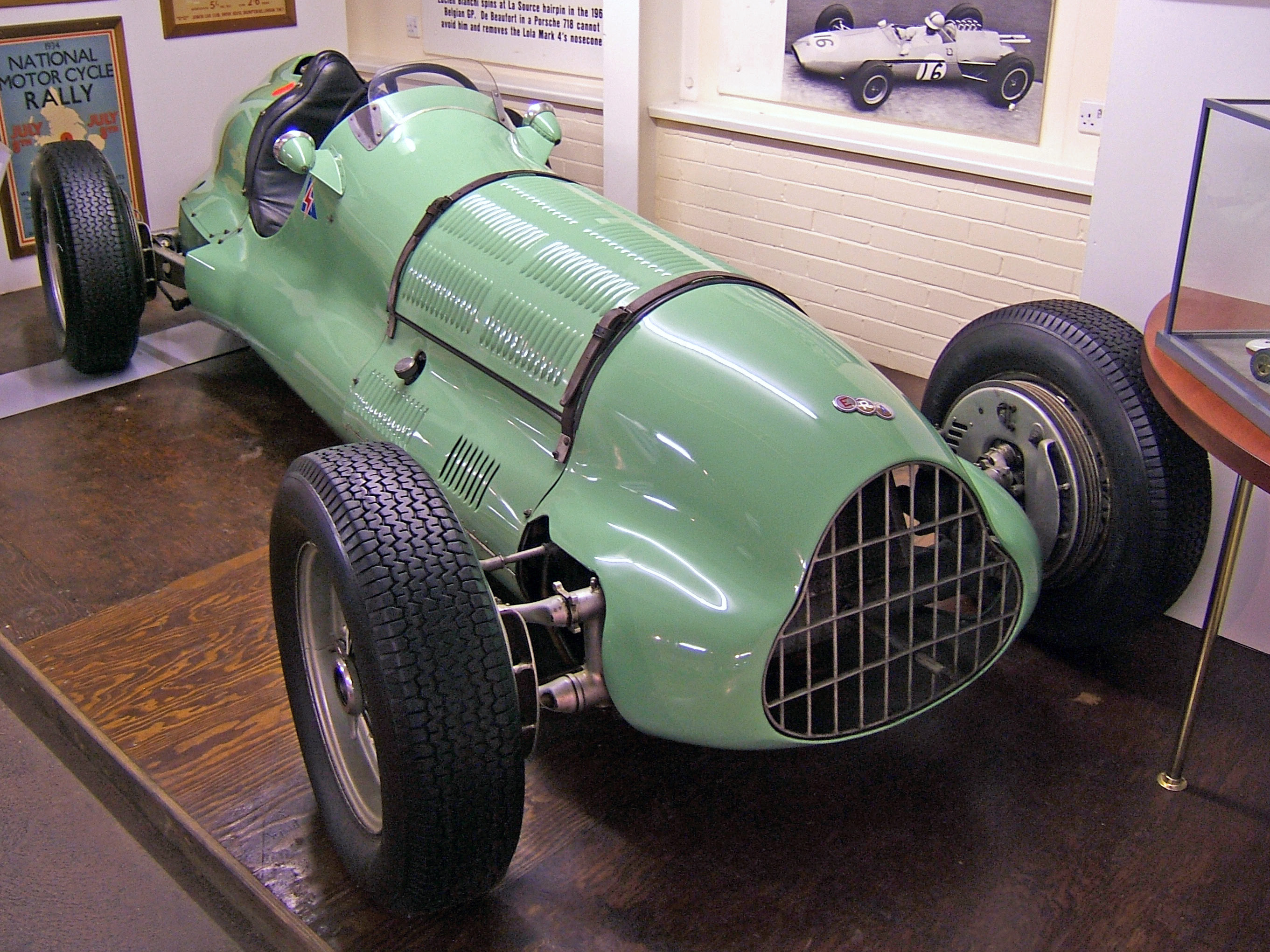 An ERA E-type Formula One car (1950). In the Donington Grand Prix Collection museum, Leics., UK.